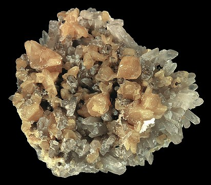 Monazite-(Ce) Locality: Siglo Veinte Mine (Siglo XX Mine; Llallagua Mine; Catavi), Llallagua, Rafael Bustillo Province, Potosí Department, Bolivia (Locality at ) Size: 3.2 x 3.1 x 2.2 cm. Monazite gets its name from the Greek word "monazein", which means "to be alone", in allusion to its isolated crystals and their rarity when first found. Monazite is usually found in granitic pegmatites, but these crystals are found in hydrothermal tin veins where is an absolute absence of Thorium (usually a trace element in Monazite). This is a remarkable, very well crystallized, ridiculously rare, specimen consisting of sharp, lustrous, translucent, orange-pink, twinned crystals on Monazite-(Ce) measuring up to 7 mm (!) on Quartz crystal matrix. These twins are some of the most distinct and impressive twinned Monazite crystals I have seen from Bolivia. The crystals actually perform a color change in different lighting ranging from orange-pink to almost colorless depending upon the light source. This specimen has some of the largest crystals I have seen from this mine, and this piece just came out of the ground a few months ago! It is very difficult to obtain any specimens of this incredibly beautiful and rare phosphate, especially in crystals from Bolivia like this. This piece is from the same mine for which this material was discovered along the Contacto and San Jose veins in this mine and was first described by Sam Gordon and Mark Bandy. It is so unbelievably rare to find matrix specimens of Monazite-(Ce) from any locality in Bolivia or anywhere else in the world. This species is often dark and opaque from most localities and rarely bright like these. These crystals also do a color change from indoor lighting to sunlight (more pink indoors). Ex. Brian Kosnar.